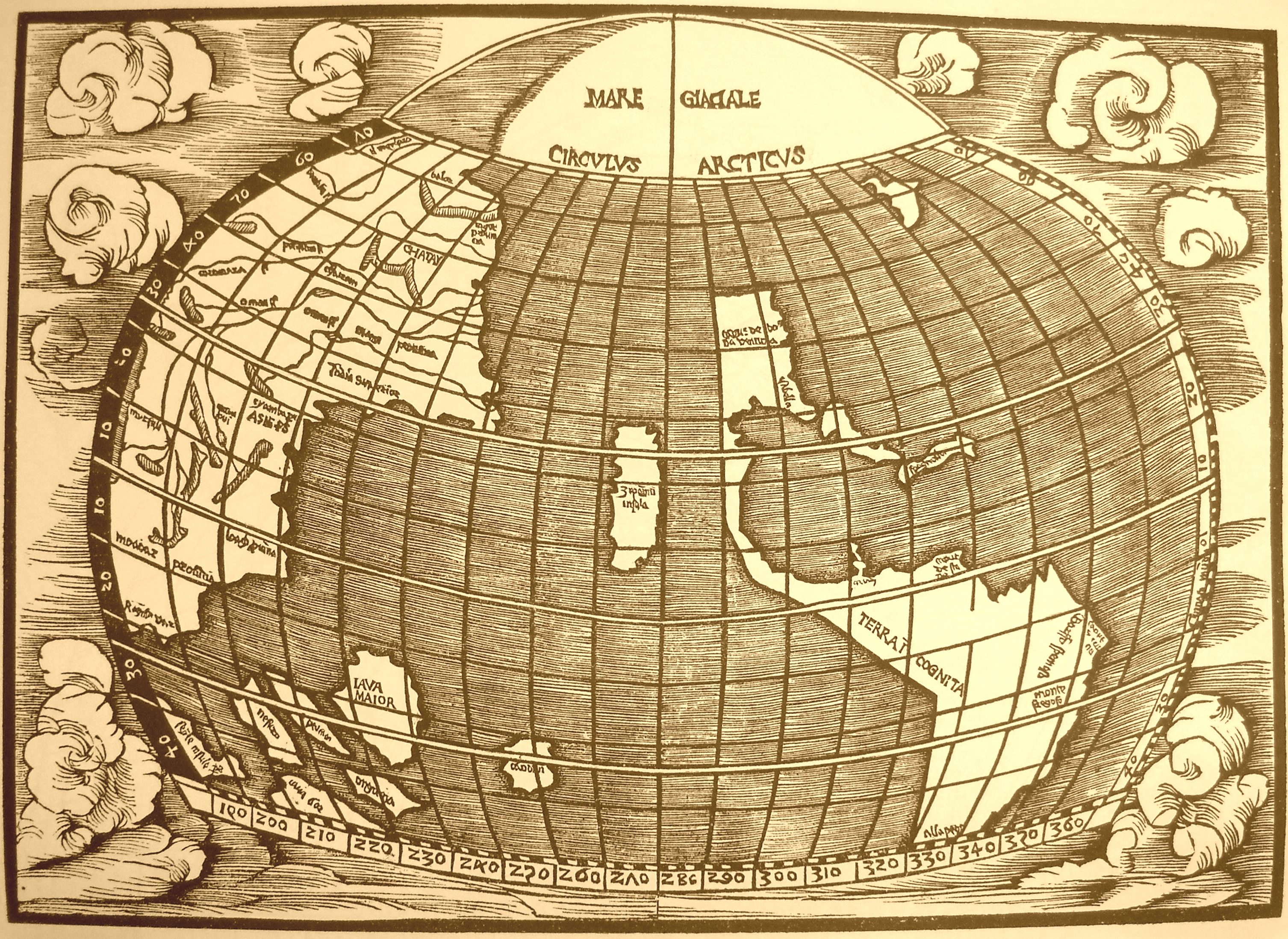 Map of the New World